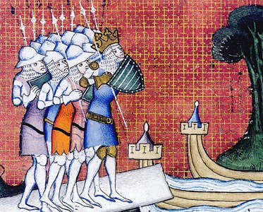 Philip of France